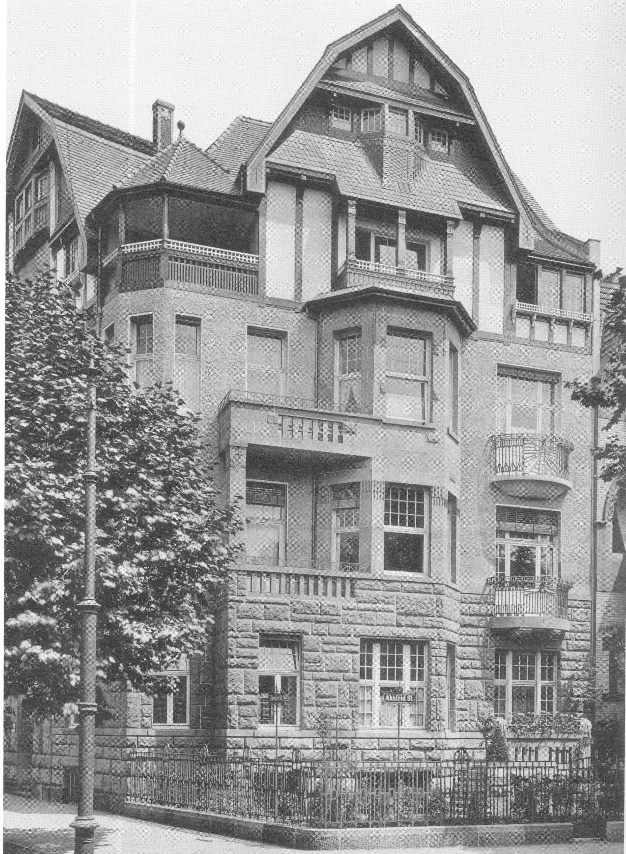 Düsseldorf Herderstraße 59